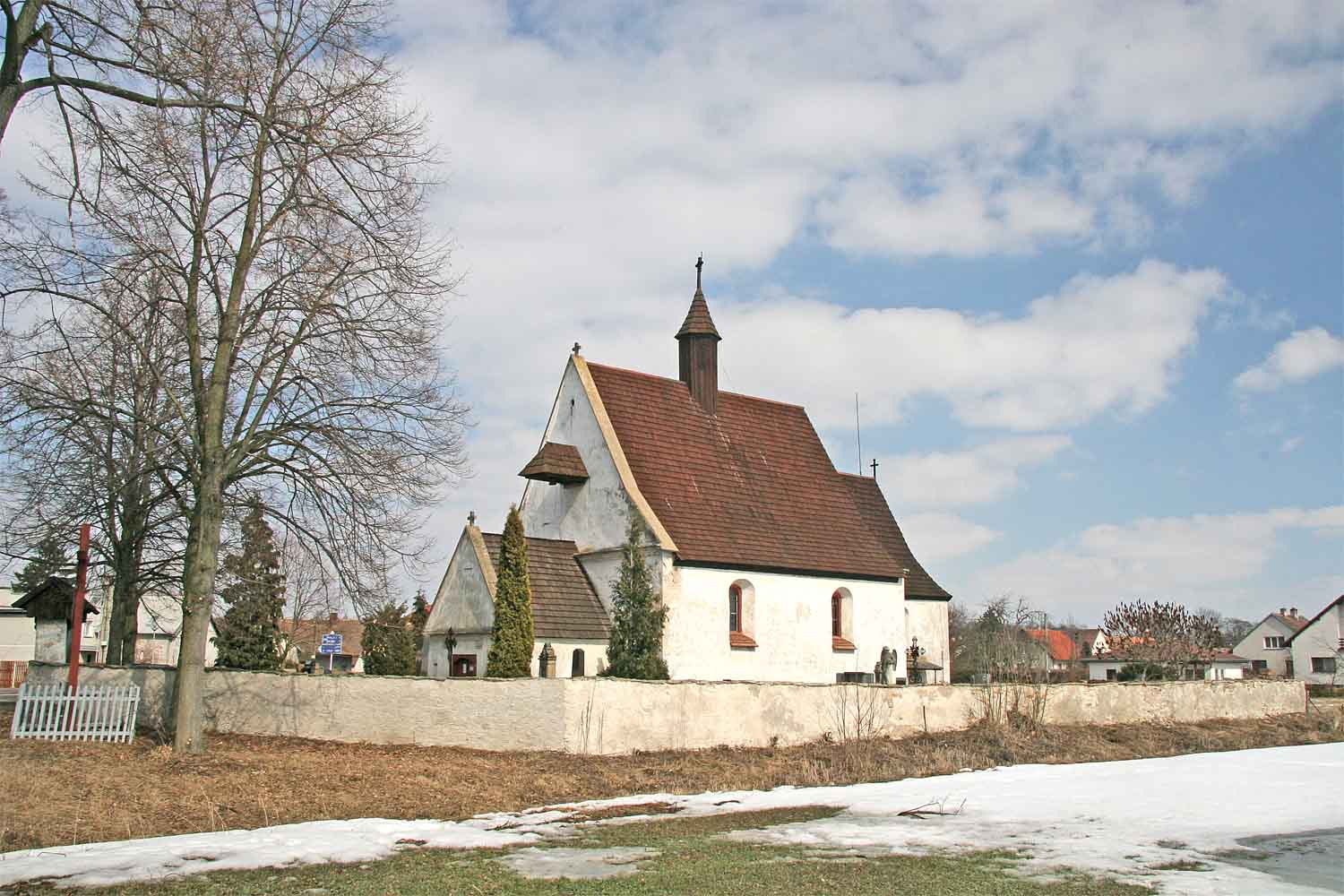 St Mary Magdalene church in Ledce, Hradec Králové (formerly Rychnov nad Kněžnou) District, Czech Republic